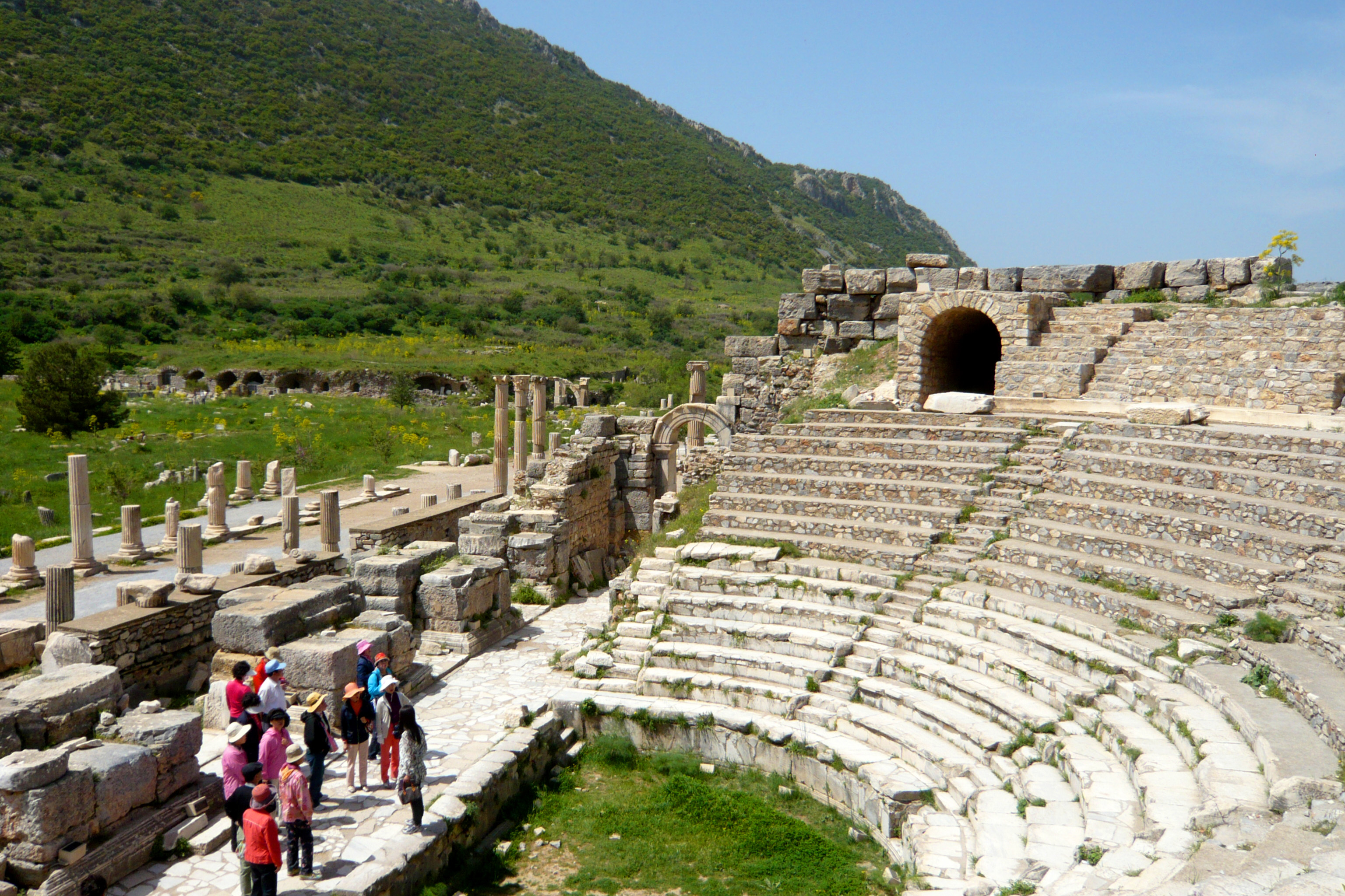 Odeon, Ephesus, Turkey